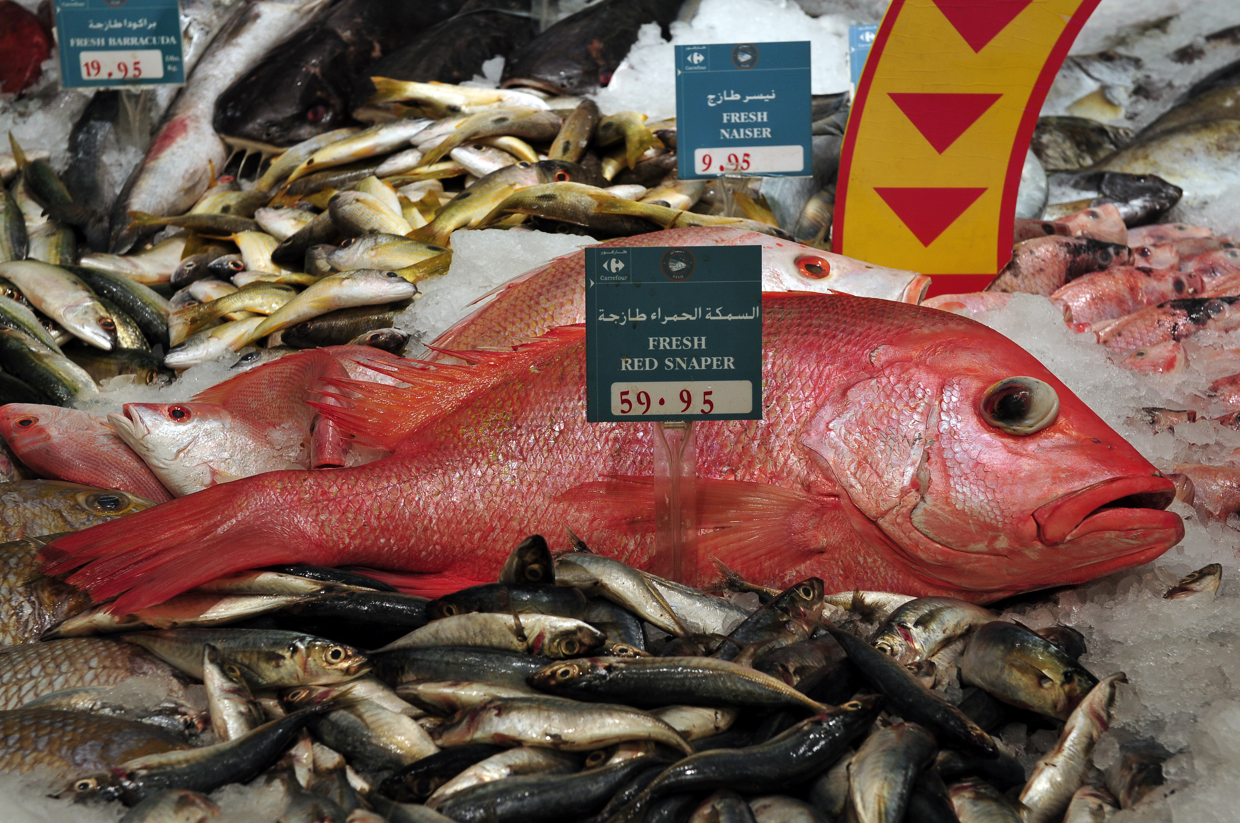 Fish in Abu Dhabi Marina Mall Shopping Center